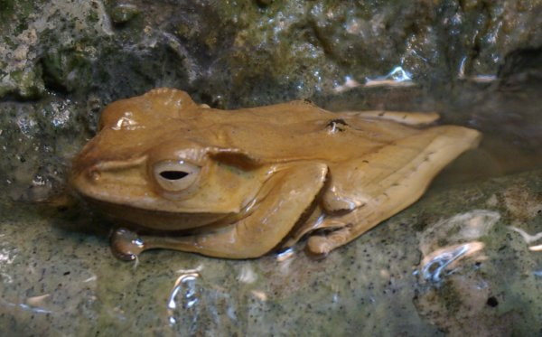 Borneo Eared Frog (Polypedates otilophus), 2008 frog exhibit at National Geographic Museum, Washington, DC